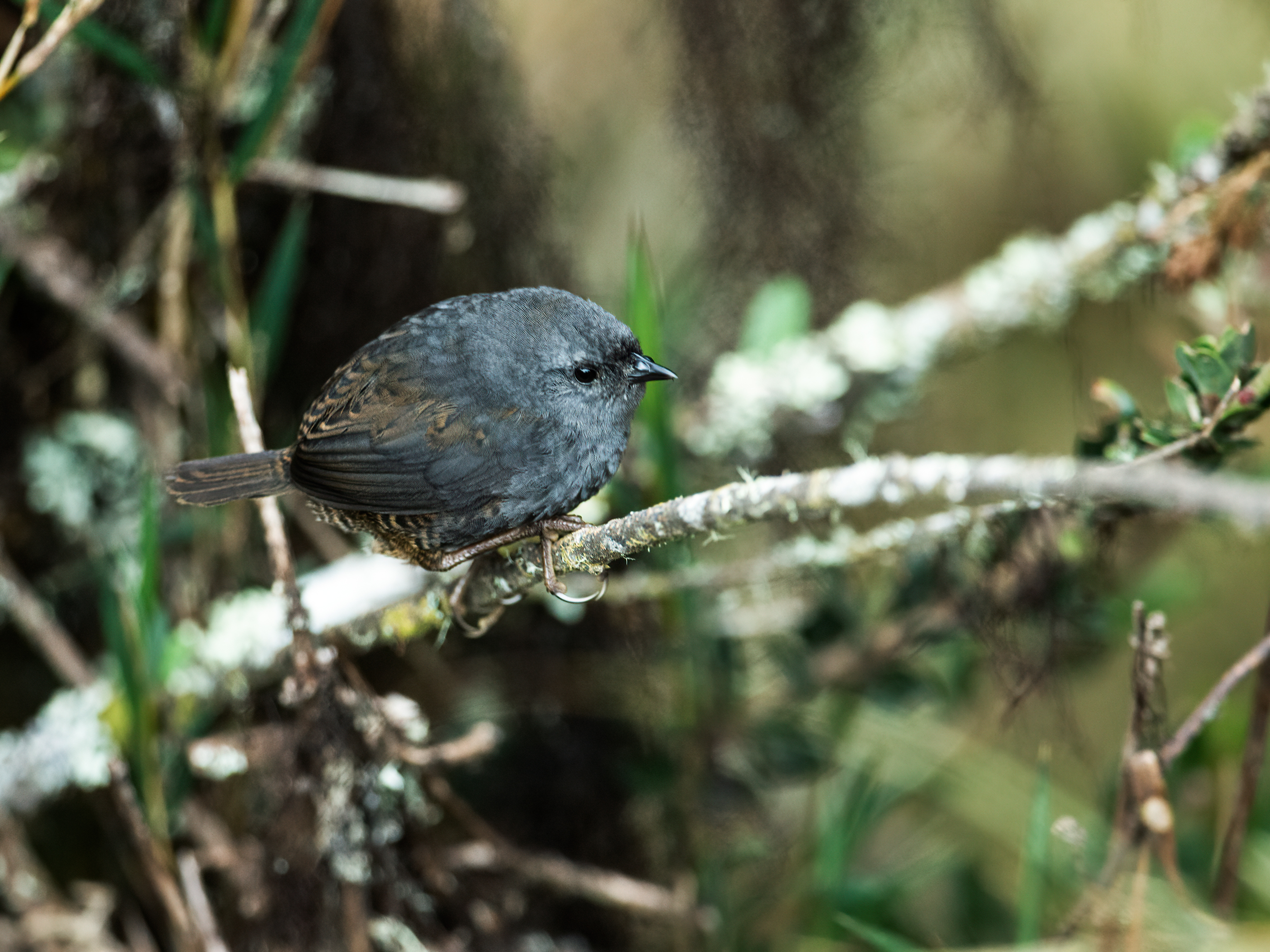 Neblina Tapaculo from Bosque Unchog, Húanuco, Peru